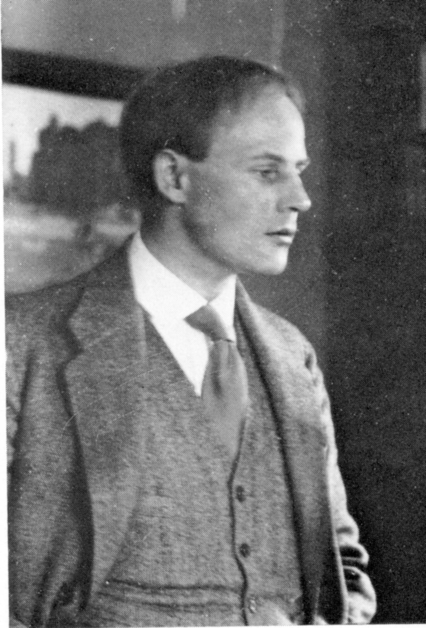 Swiss writer and translator Siegfried Lang